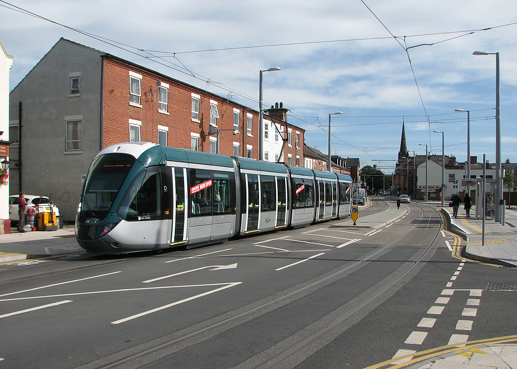 At Chilwell Road tram stop on opening day. A city-bound tram stopping at Chilwell Road on the first morning of operation of the two new tram routes.